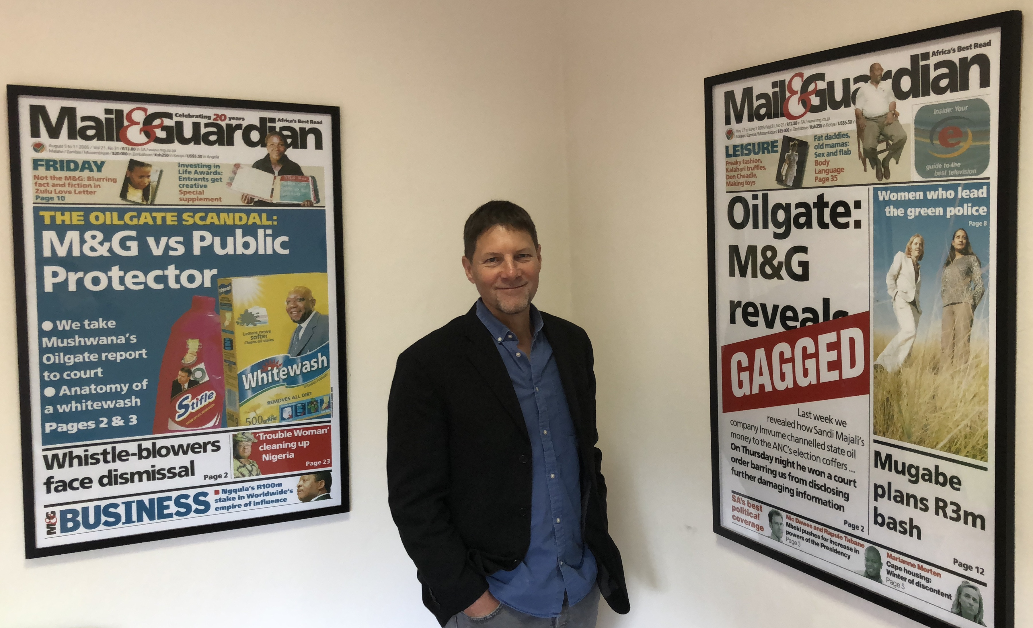 AmaBhungane co-founder and managing partner Stefaans Brümmer with posters of the South African Mail & Guardian weekly newspaper featuring “Oilgate” stories from their May 27 and August 5, 2005, issues.